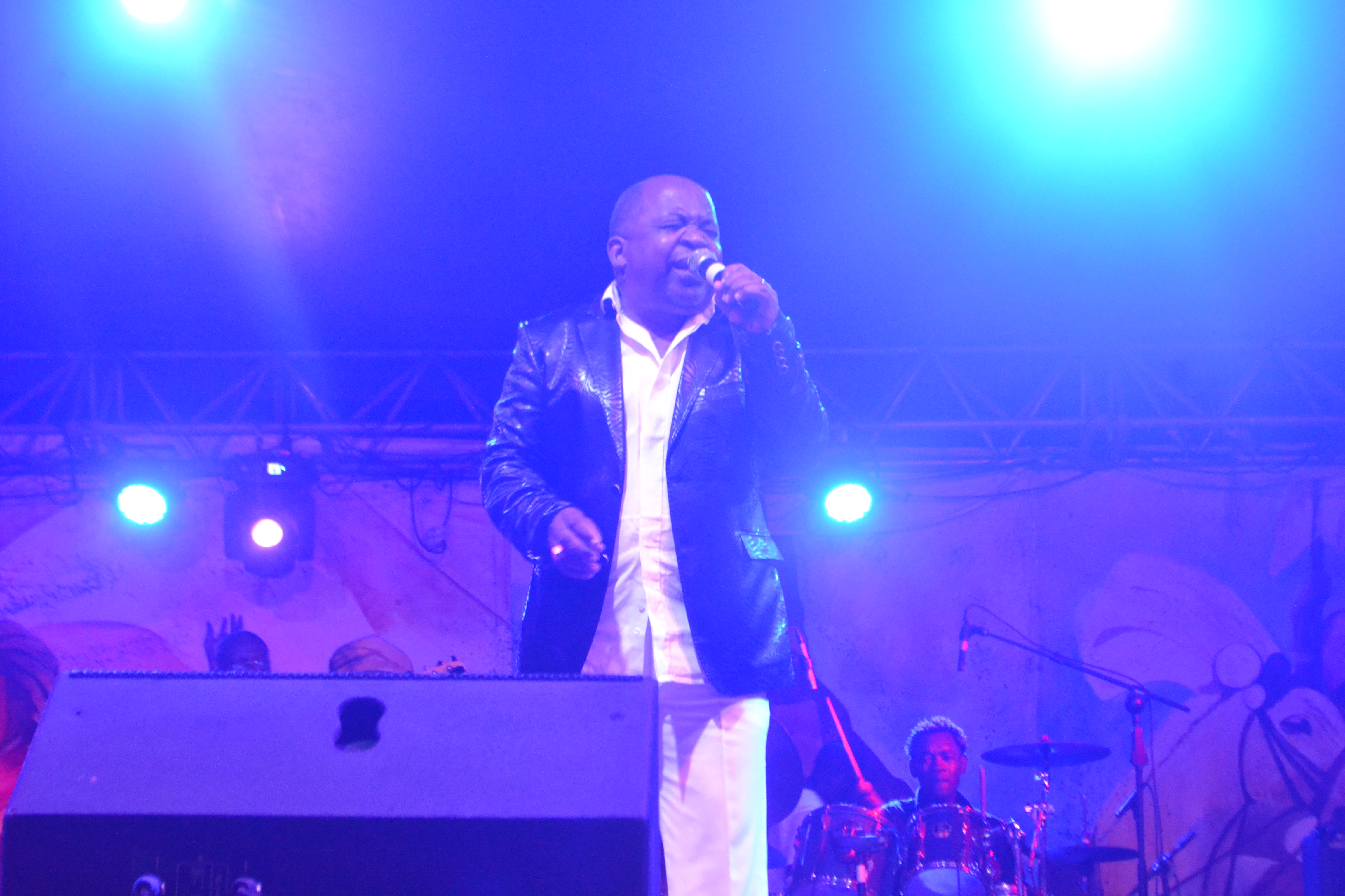 Cameroonian singer Ben Decca during a live performance in douala on December 16, 2017